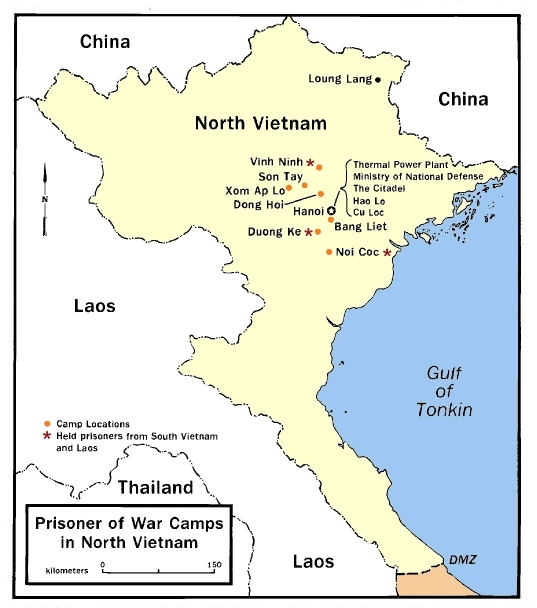 wyswyg